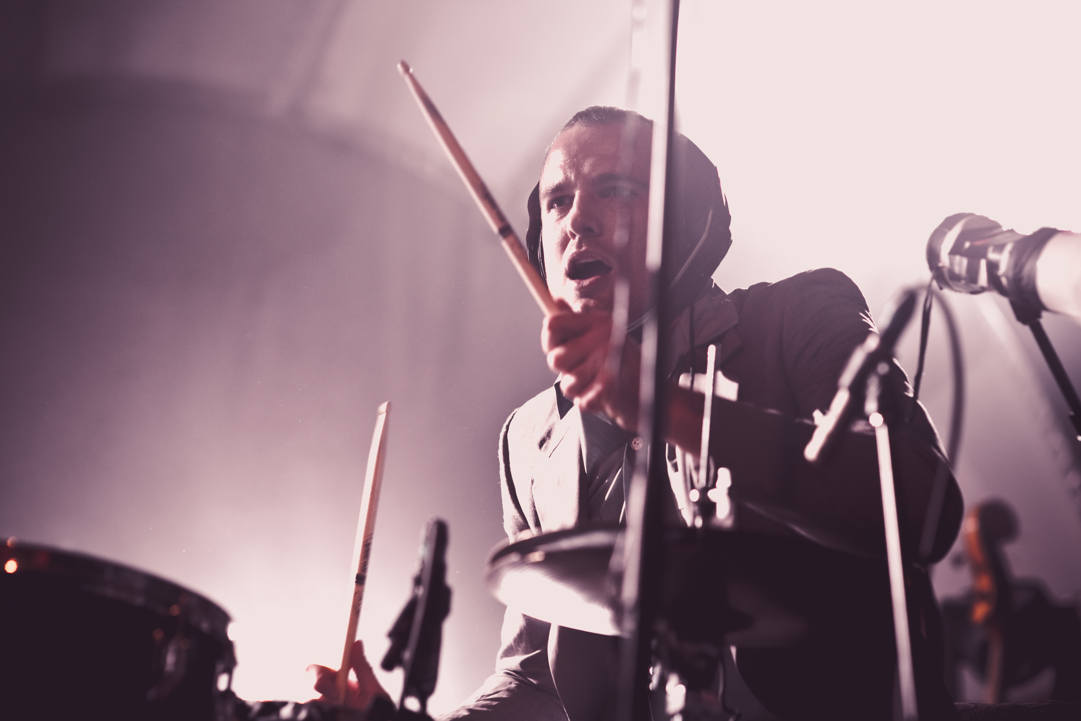 Darren King, drummer for MUTEMATH, at Roseland Theater in Portland, OR on 2009-10-06.